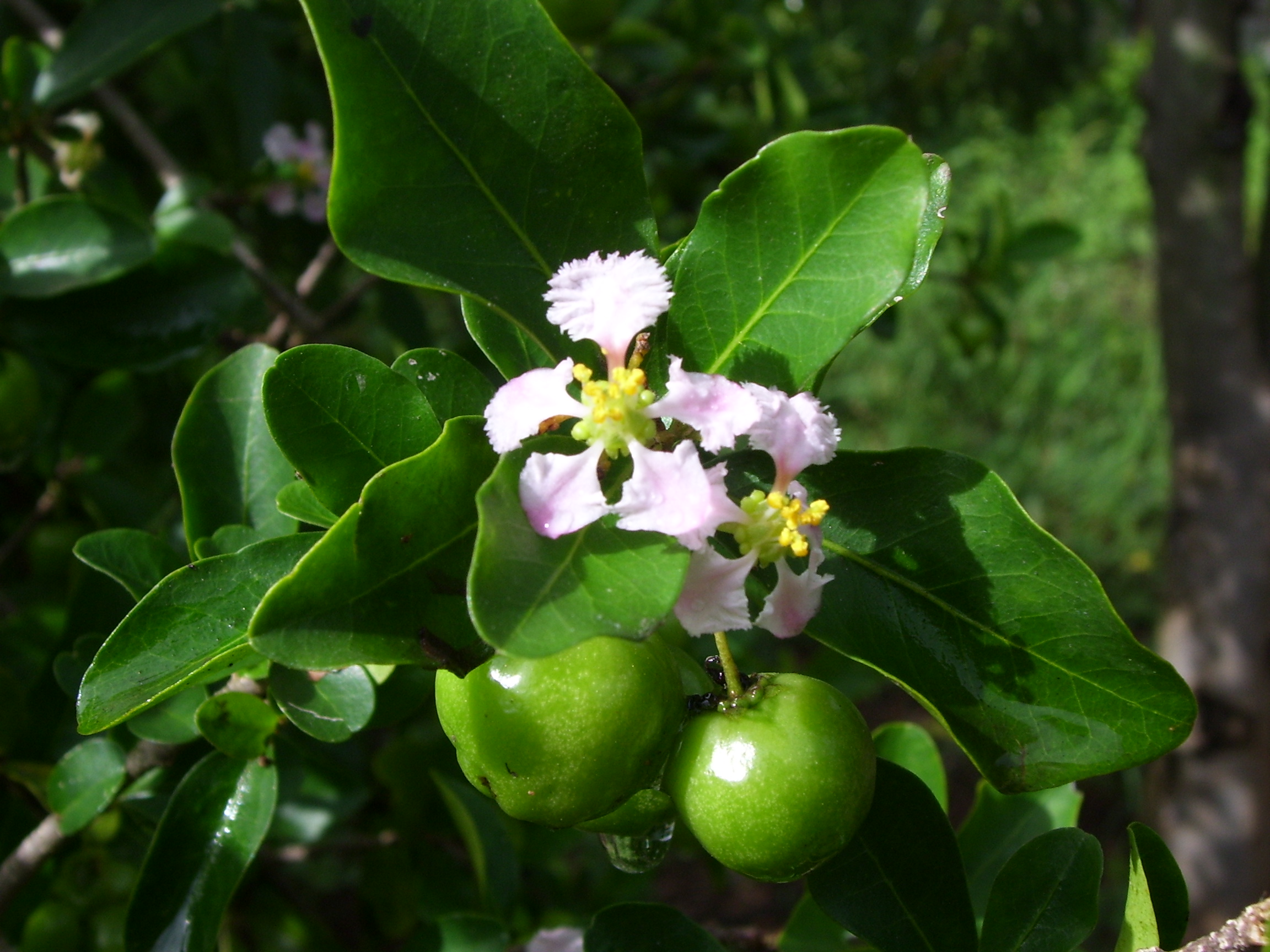 Flower of acerola (Malpighia glabra)